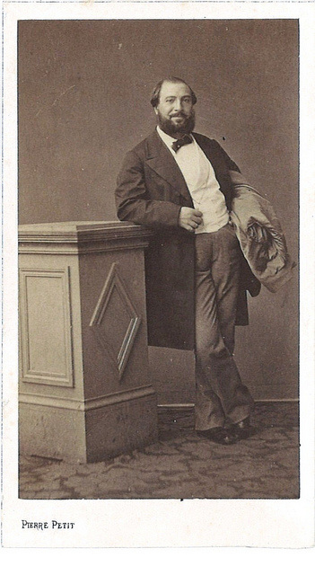 Photo of French operatic tenor in the 1860's